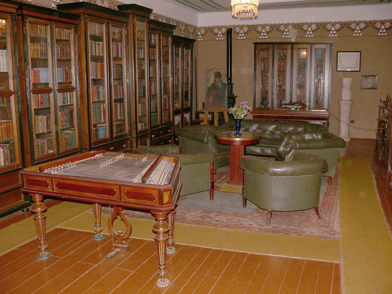 Géza Gárdonyi's working room